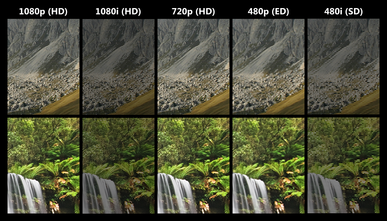 A comparison of high definition, enhanced definition, and standard definition resolutions as if it were viewed on a fixed-pixel 1080p display without deinterlacing processing. Should be viewed at full size to properly compare them. The preview image shouldn't be used as it averages out the interlaced images when resizing and gives the impression of a very dark picture. In reality the full-size image has been brightness-compensated for the few interlaced images. Original images used in this comparison are File:Passo di Giau.jpg and File:Russell Falls 2.jpg